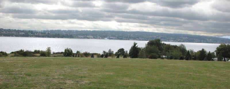 The Fin Project in Magnuson Park on the near shore of Lake Washington; Kirkland and Bellevue on the far shore. The M/V Protector may be the white blob near the center of the image on the far shore.